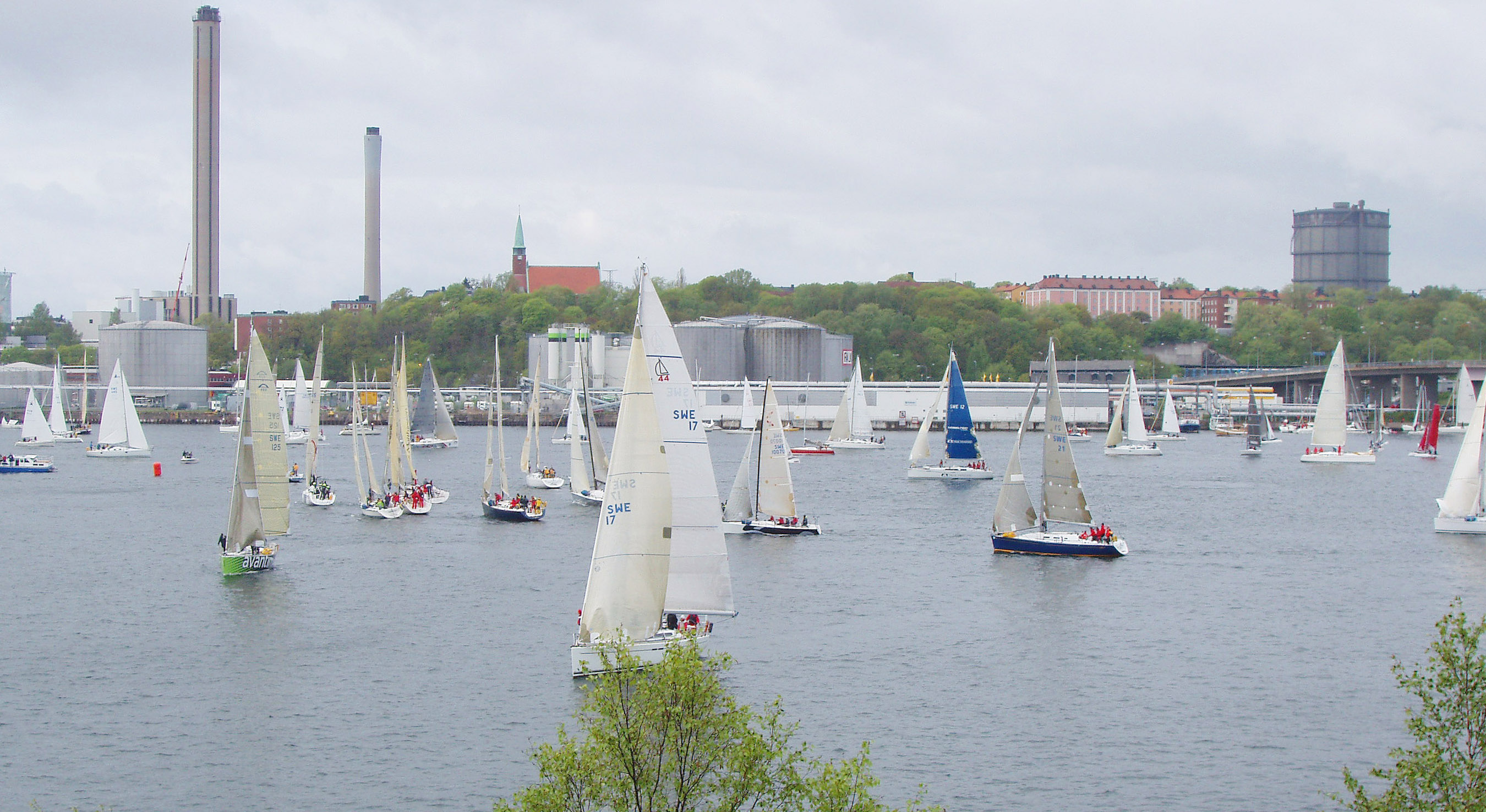 Sailboat race, "Lidingö Runt", May, 2009. Startarea below hotel Foresta. Lidingö.